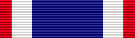 I made this image with Photoshop. DOS Secretary's Distinguished Service Award Ribbon